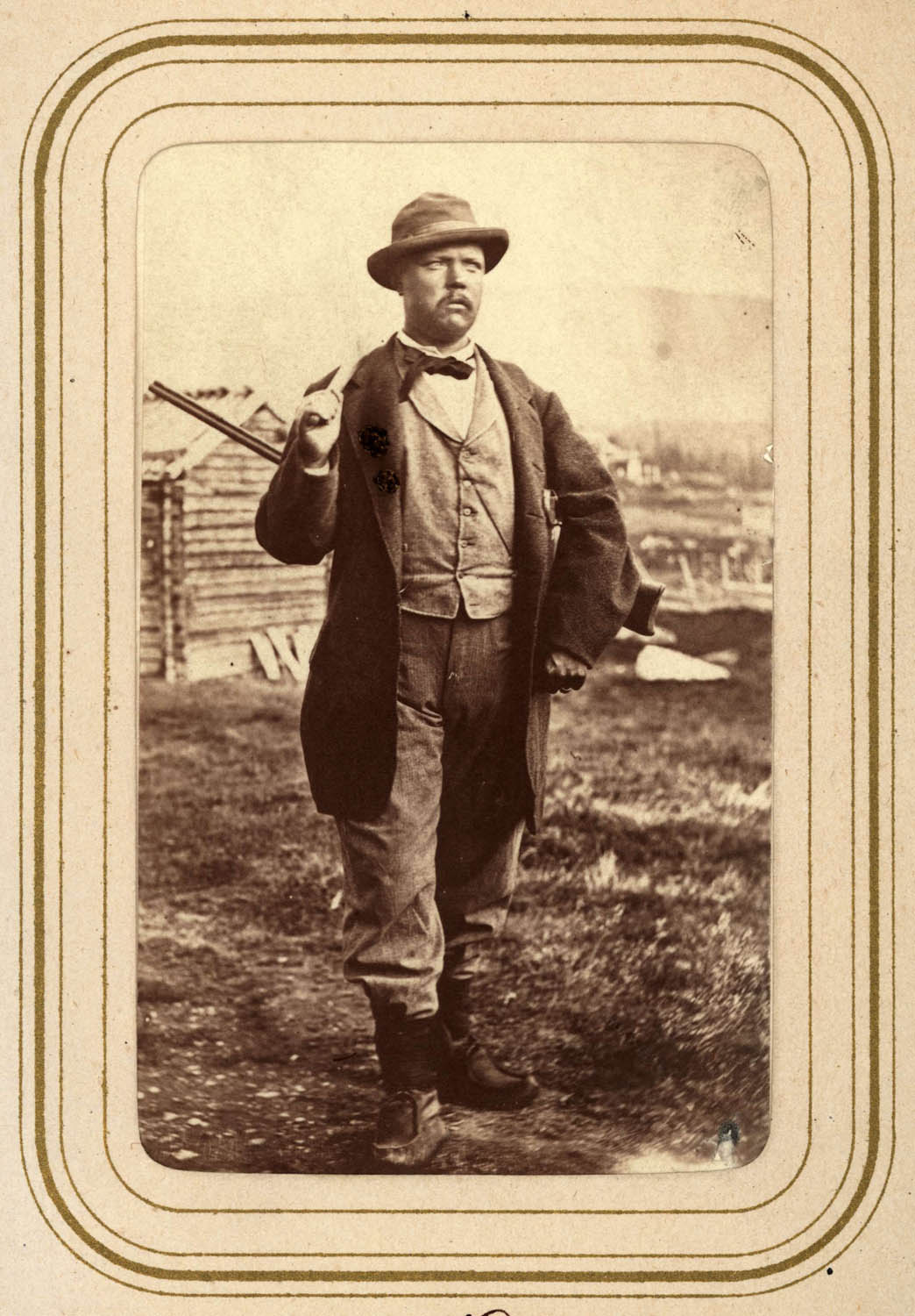 "Lieutenant H A Widmark". From an album containing photographs taken by Lotten von Düben on an ethnological expedition to Swedish Lapland, 1868.